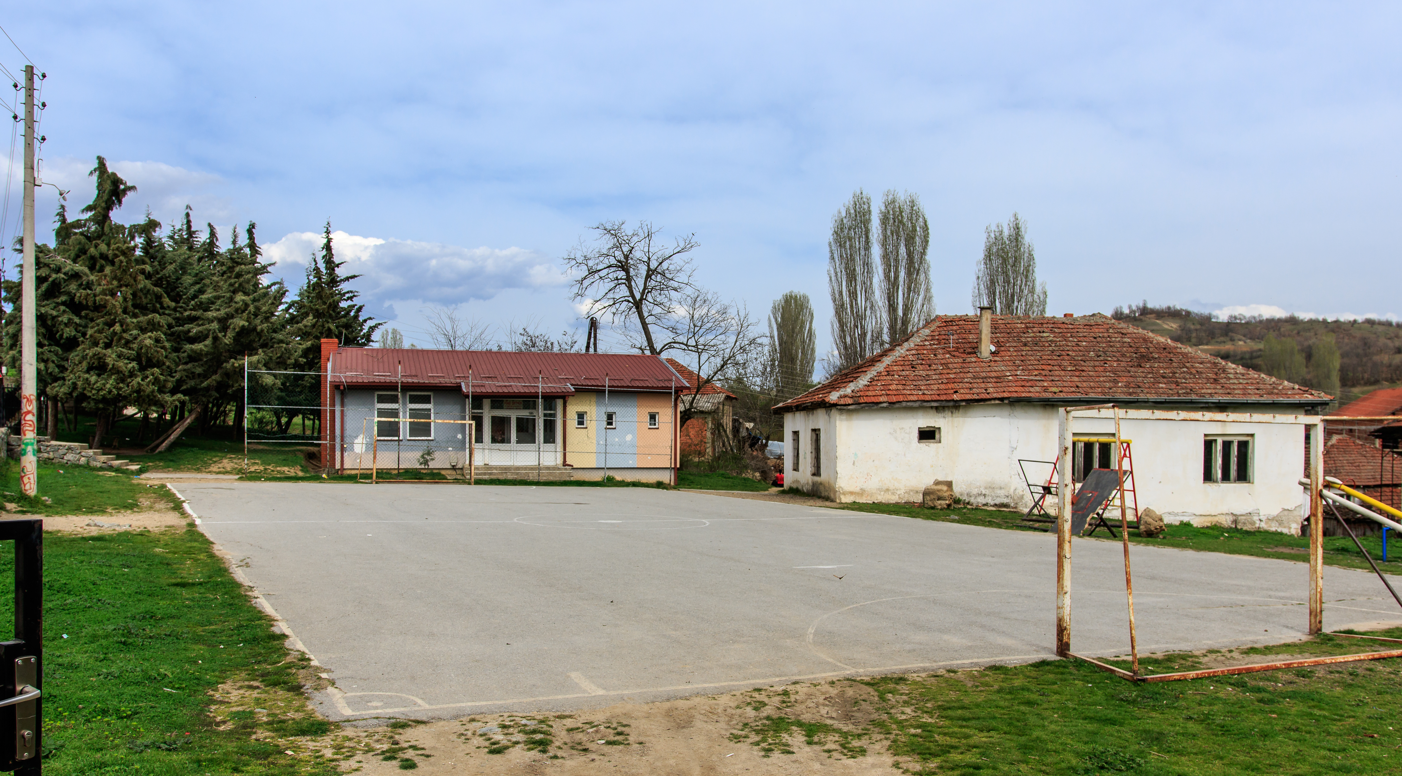 Primary school in the village Dedino